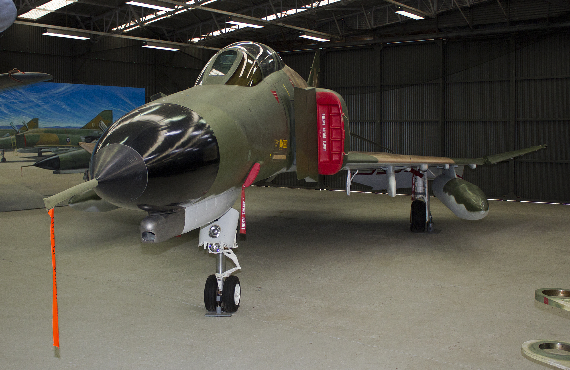 Former USAF McDonnell-Douglas F-4E Phantom (67-0237) painted in RAAF No. 82 Wing livery at the RAAF Museum.